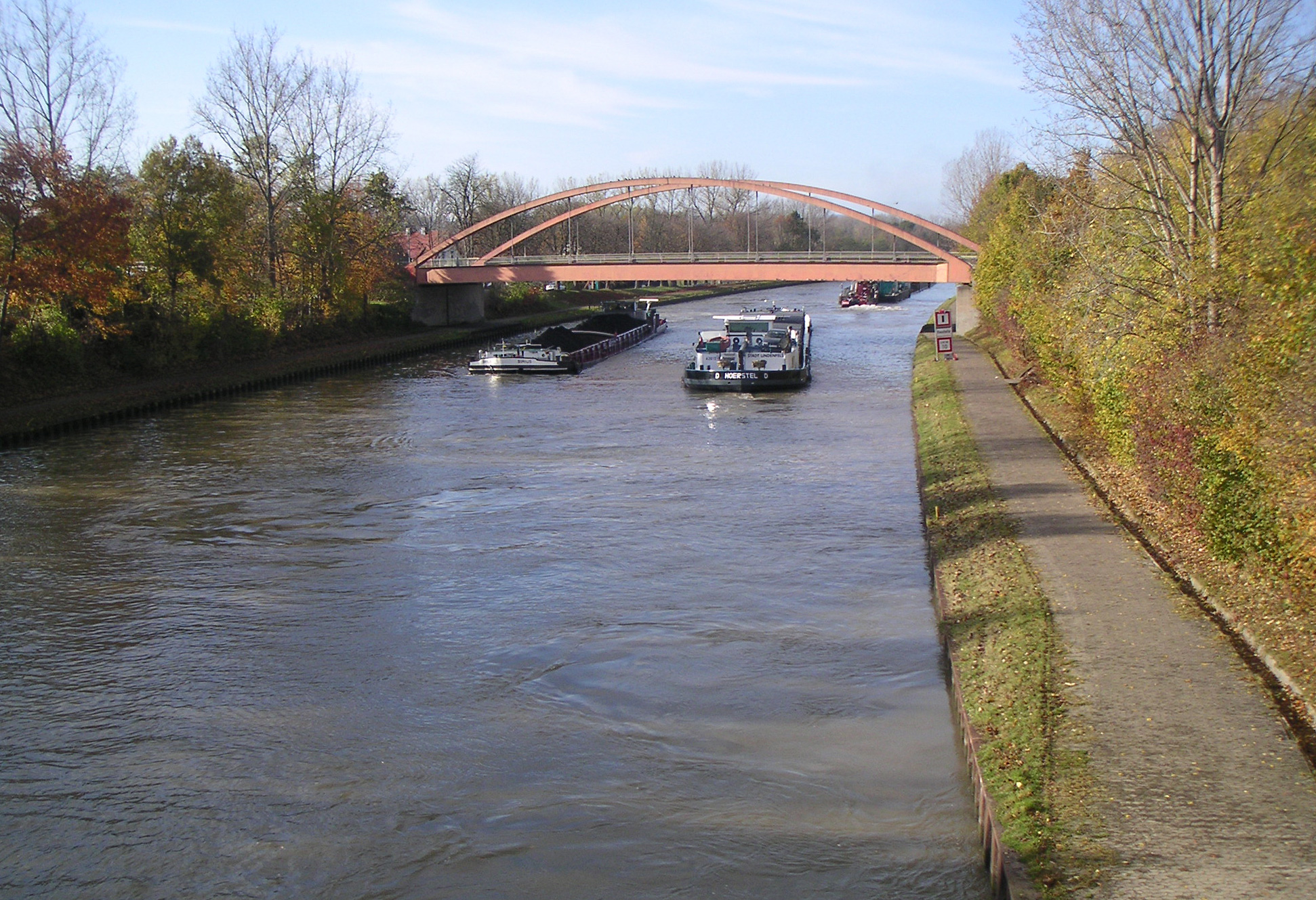 Mittelland canal near the town of Minden, Germany